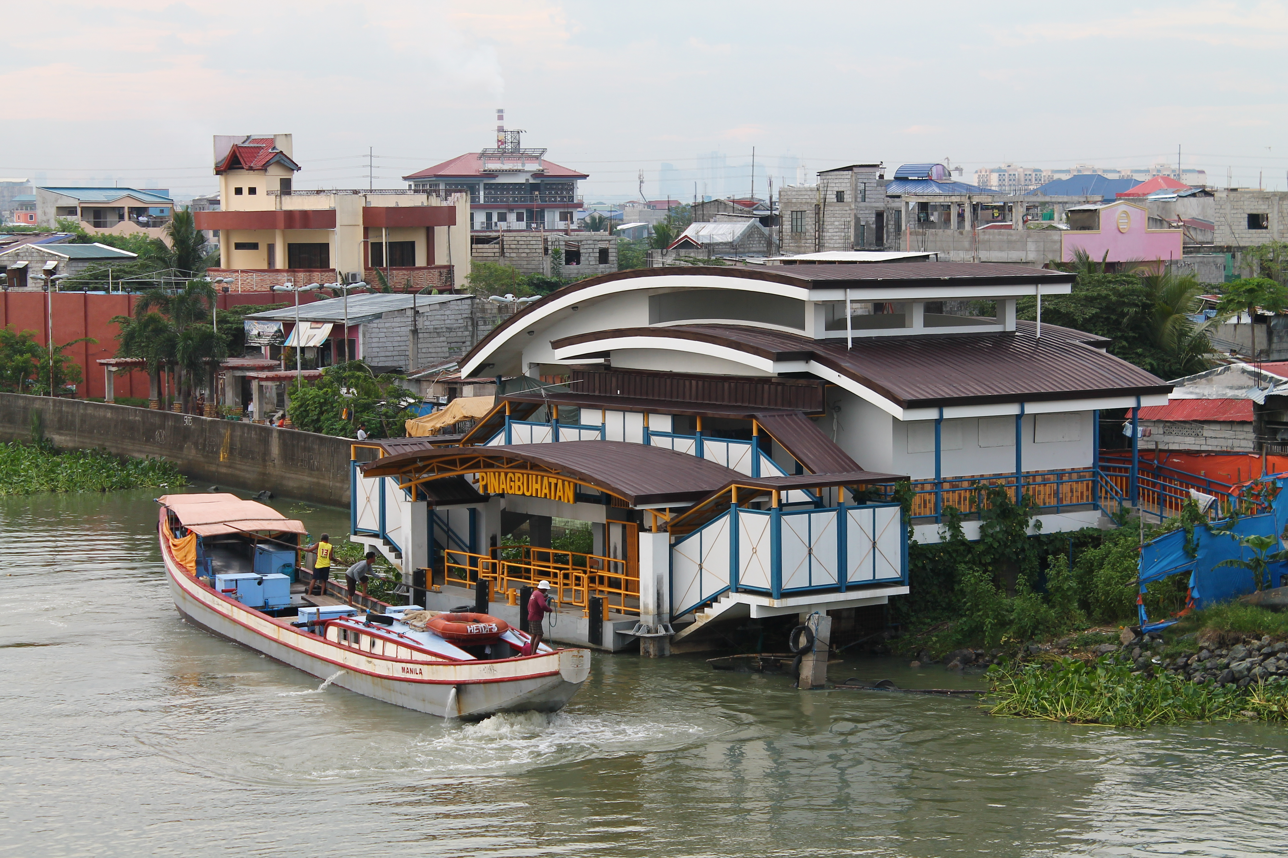 Pinagbuhatan Station of the Pasig City Ferry